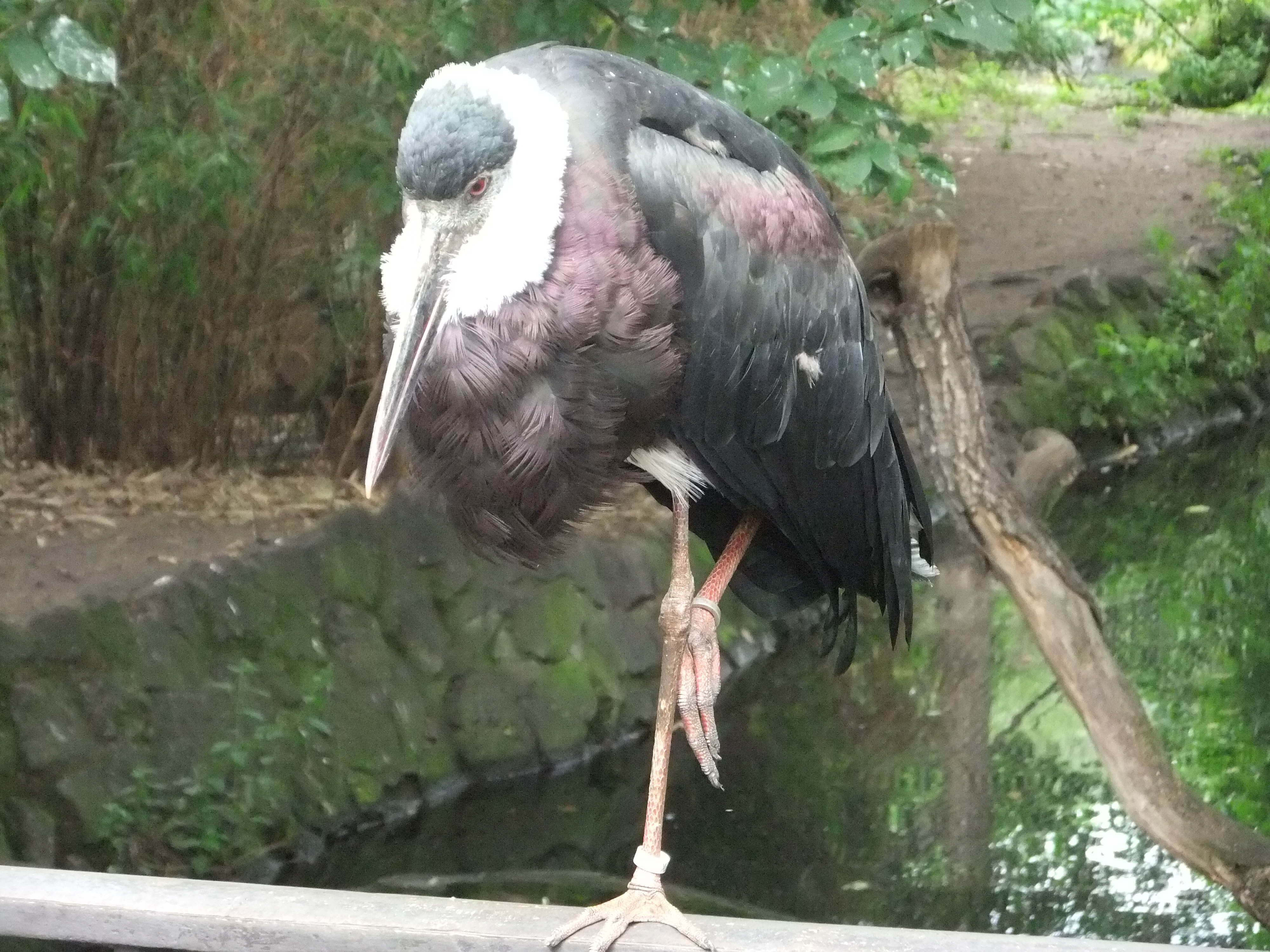 A woolly-necked stork in Berlin Zoological garden